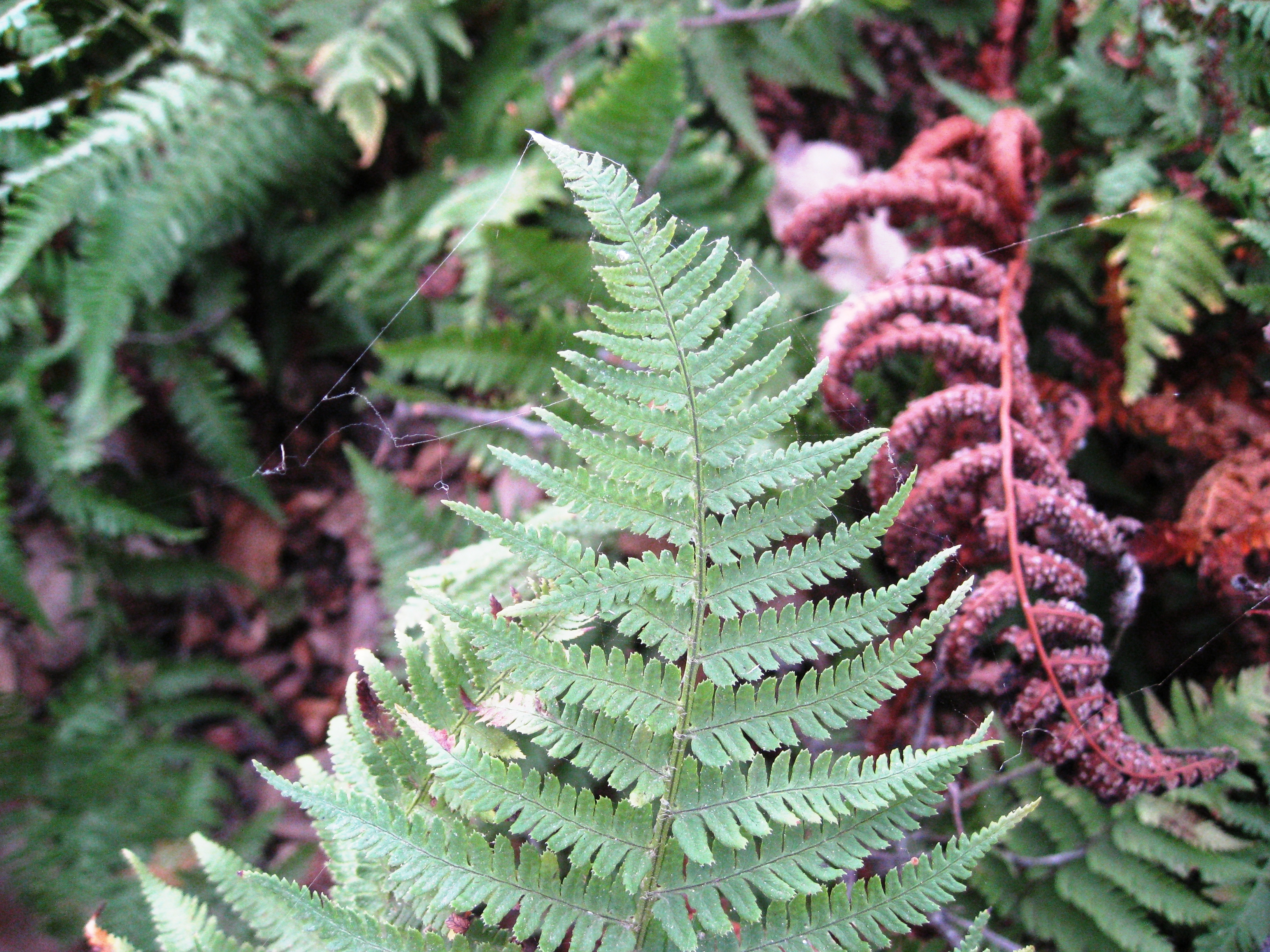 Dryopteris arguta — Coastal woodfern. This species of wood fern is native to the west coast and western mountain ranges of North America, where it grows in mixed evergreen forests, oak woodlands, and shady low elevation slopes. Specimen at the Santa Barbara Botanic Garden, Southern California. sb0811 083